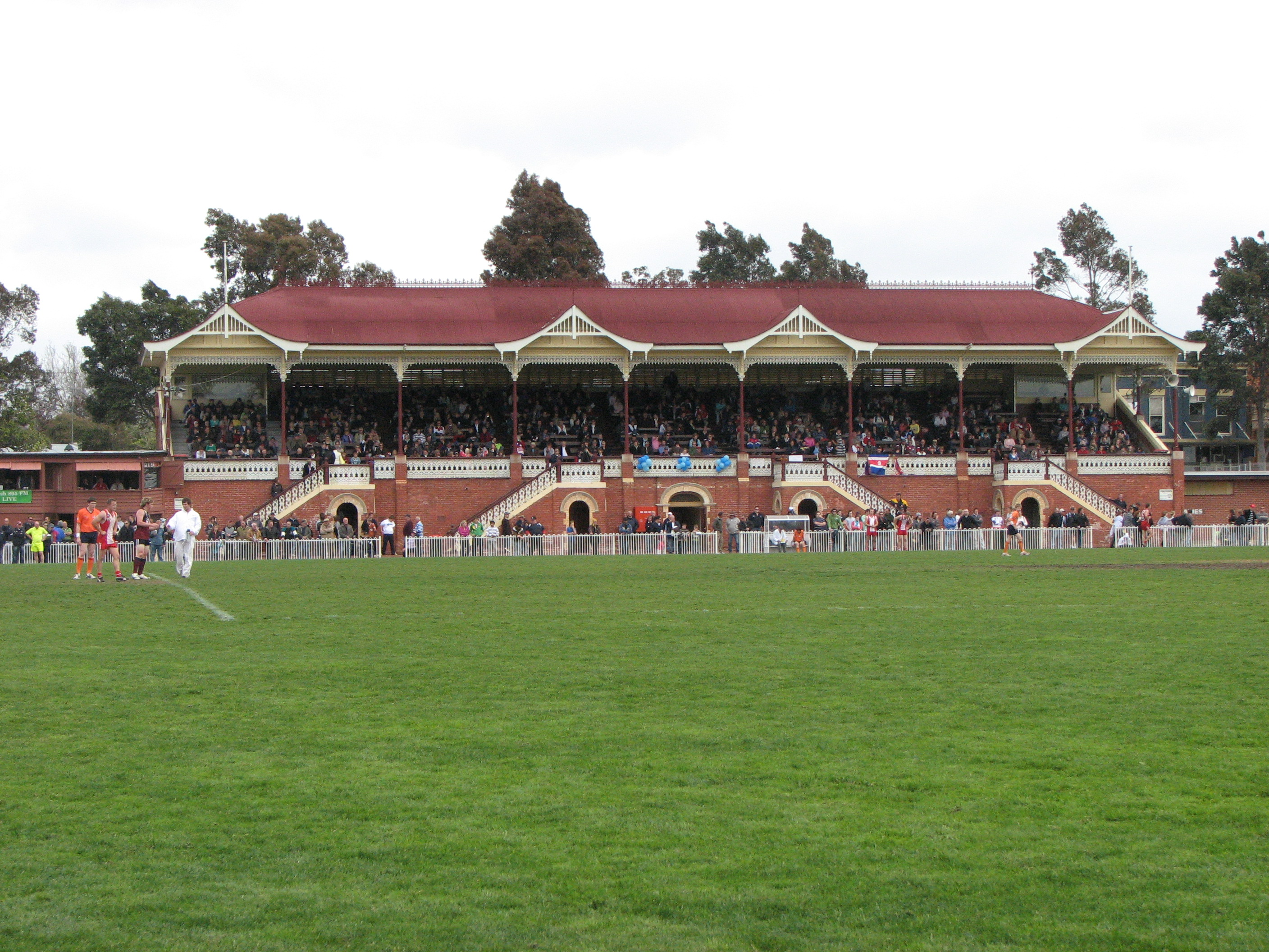 Queen Elizabeth Oval, Bendigo Football grand final September 30 2007